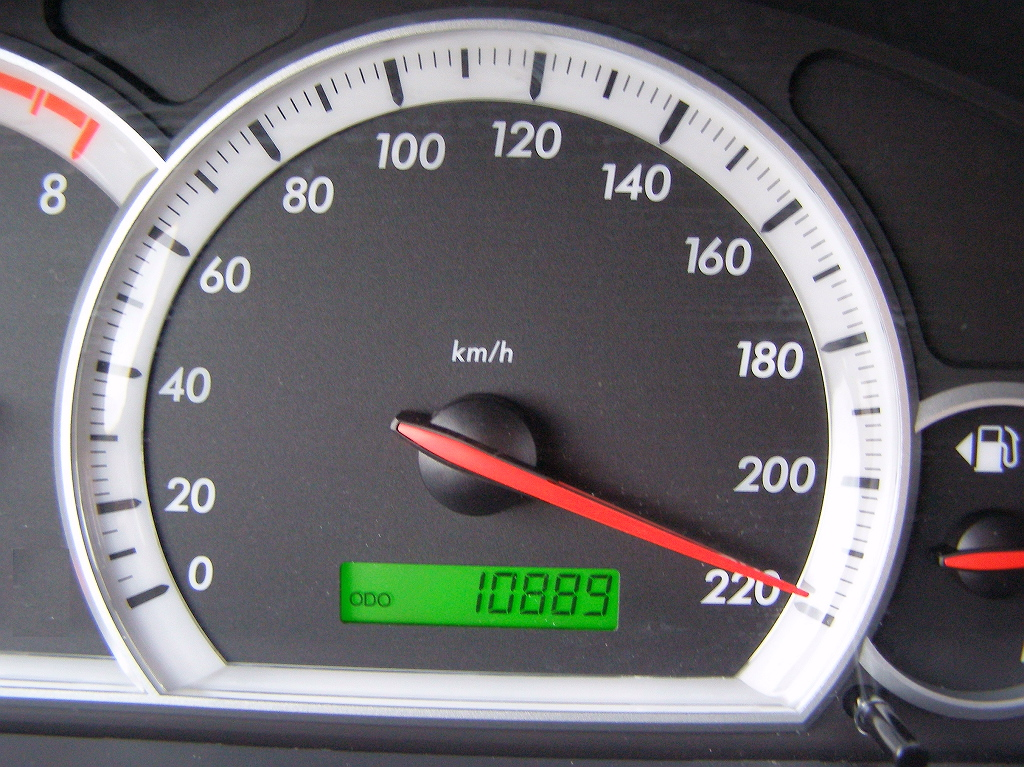 A speedometer using kilometres per hour. (km/h) By the way, the car is not driving. The speedometer has been raised using a computer that can control various systems of the car.